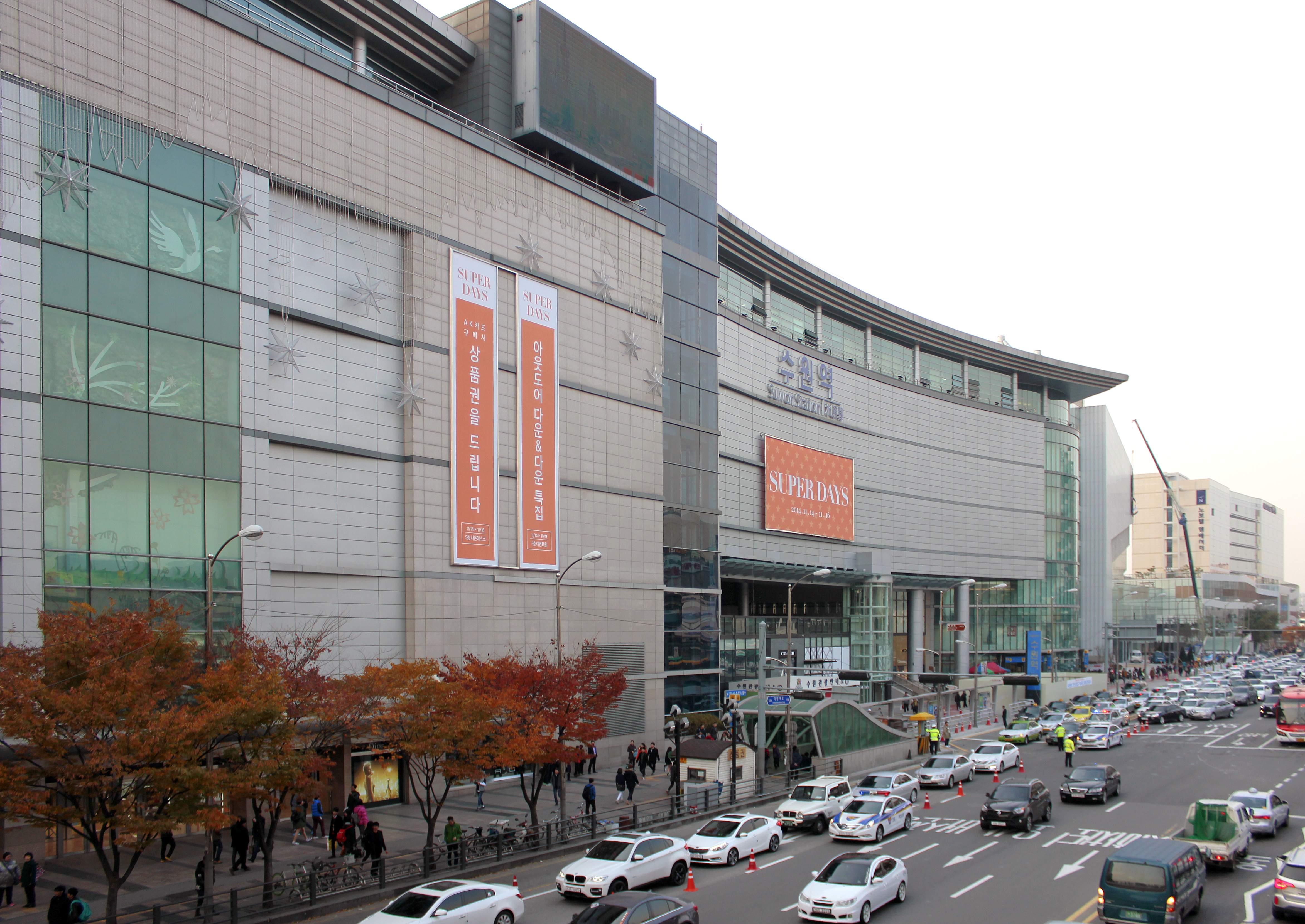 16 Nov 2014